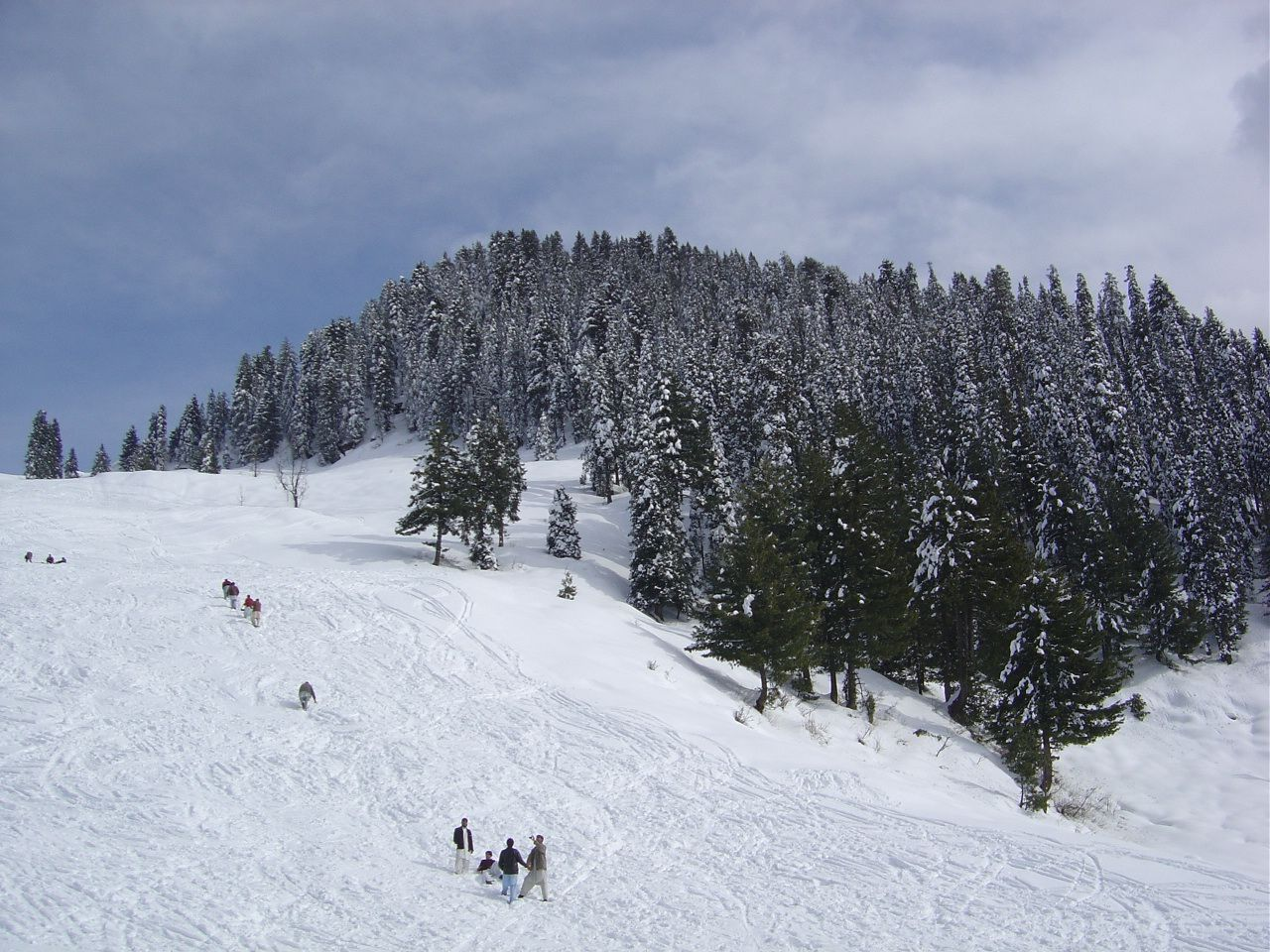 Locals walking on the ski slopes in Malam Jabba